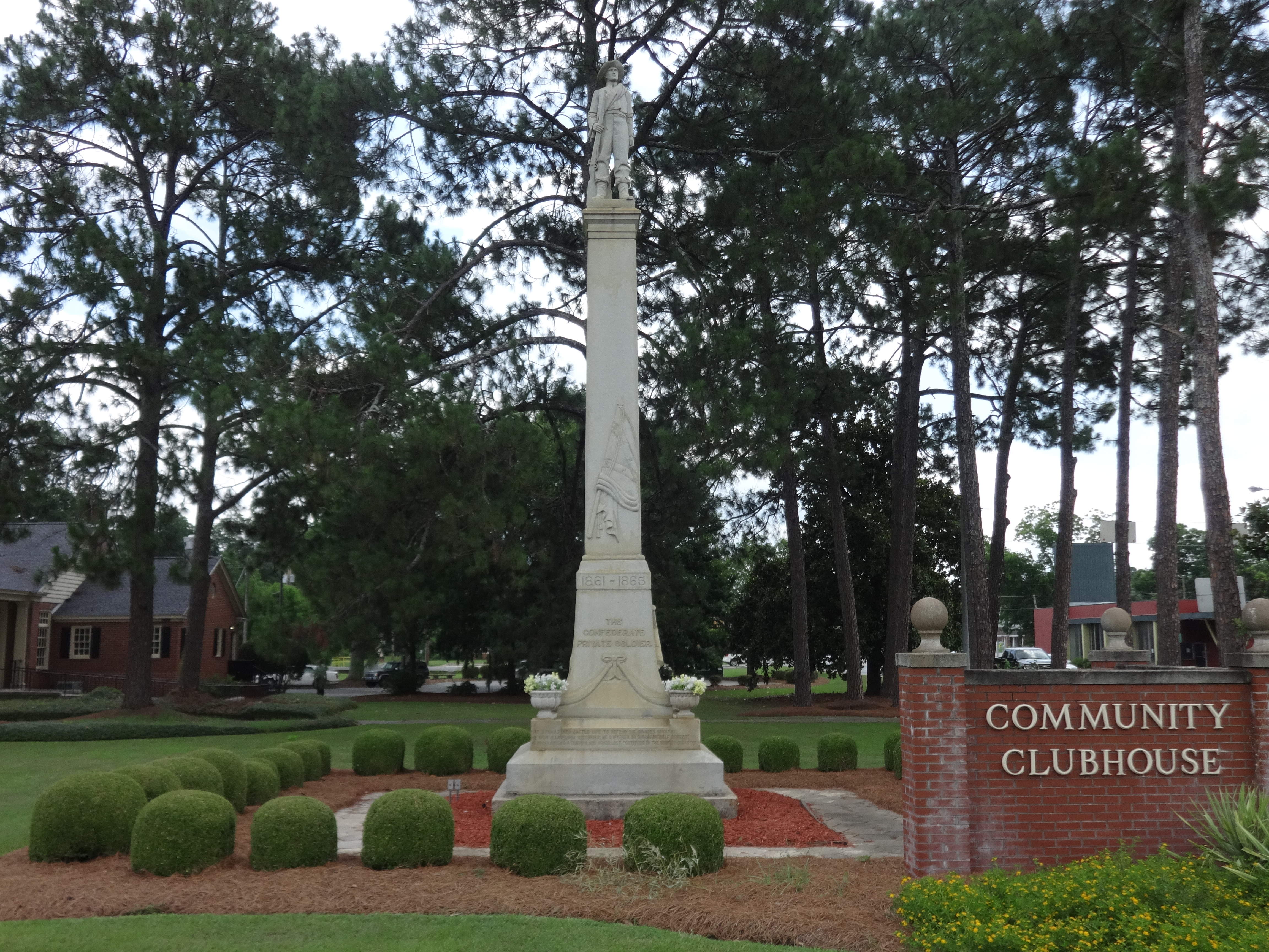 Cordele, Crisp County, Georgia